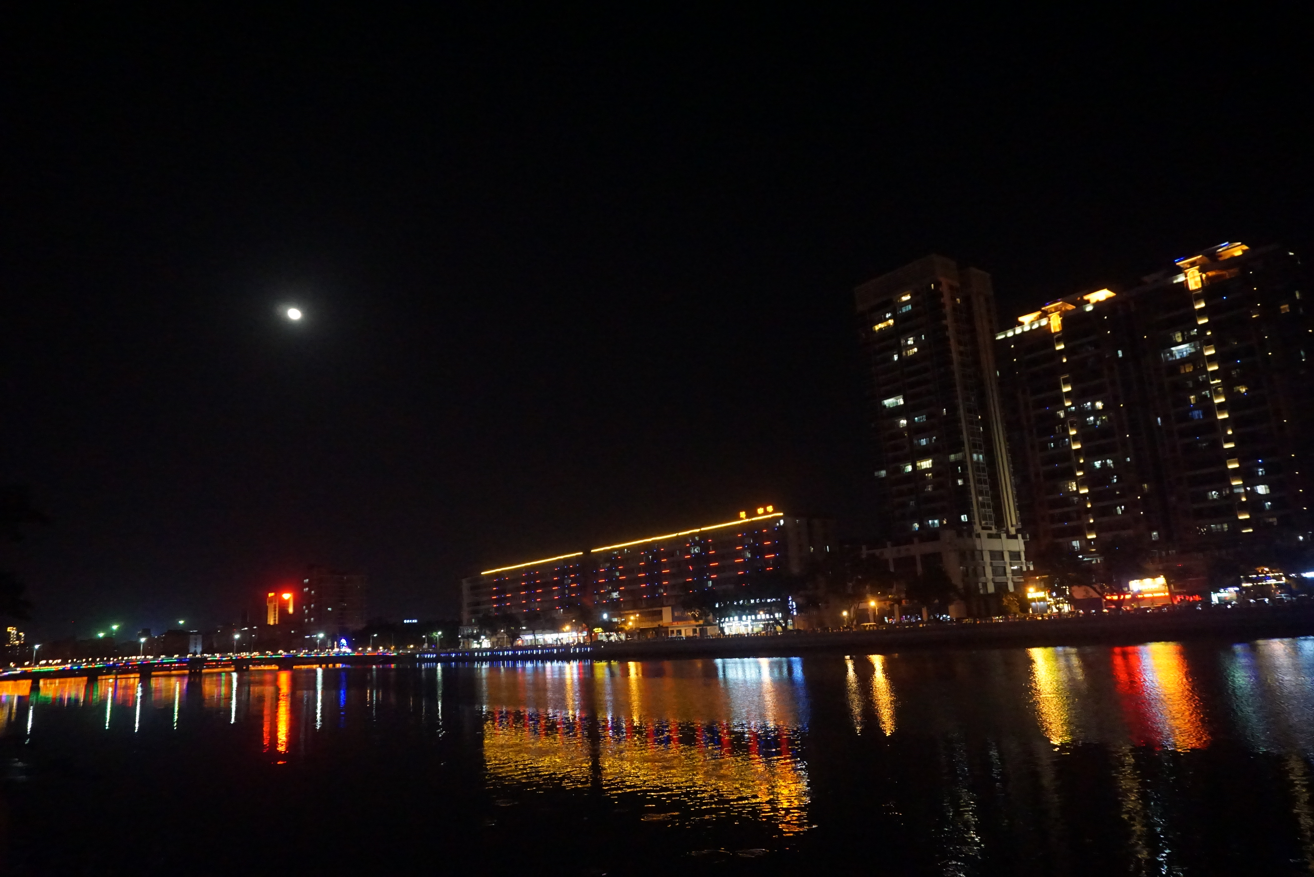 The Tan River (Tanjiang) with buildings at night in downtown, Kaiping, Guangdong Province